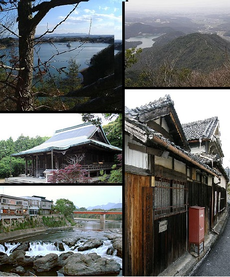 Kato montage